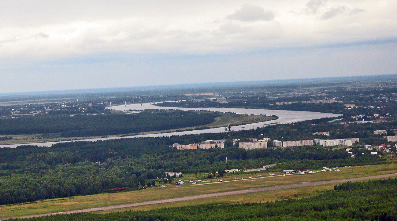 Kimry (Borki) airport runway — photo from 300 m